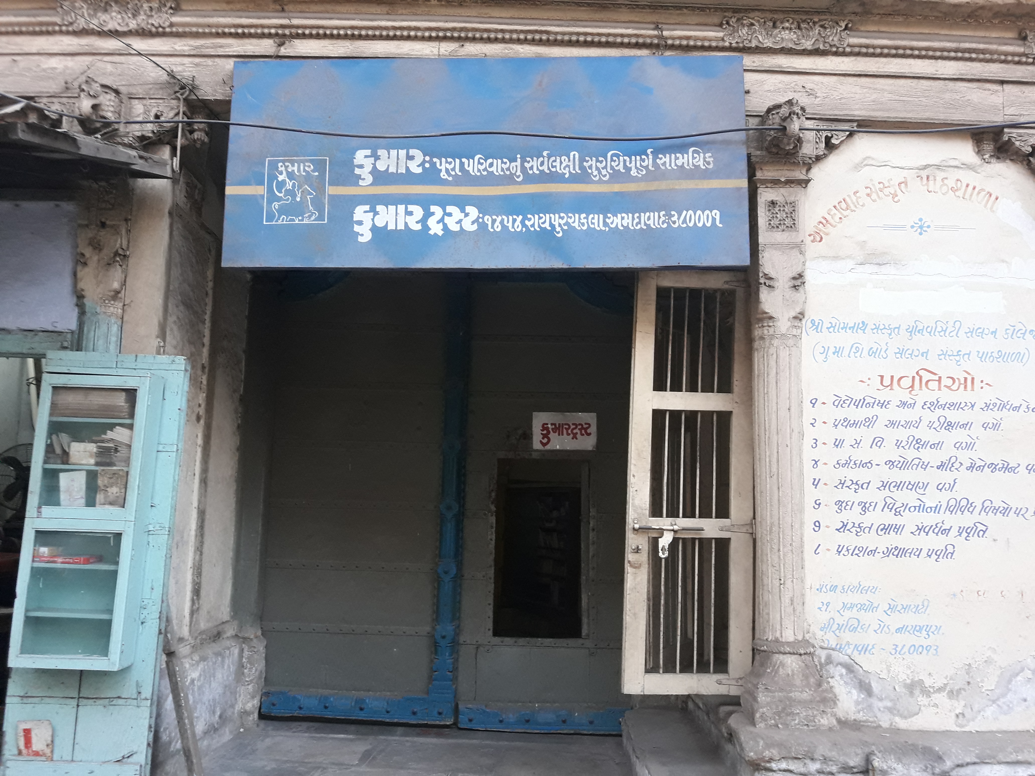 Kumar Trust (Gujarati: Kumar Karyalaya) is located near "Baua's Pol" in Raipur area of Ahmedabad, Gujarat, India. It publish two Gujarati language literary magazine "Kumar" and "Kavilok".